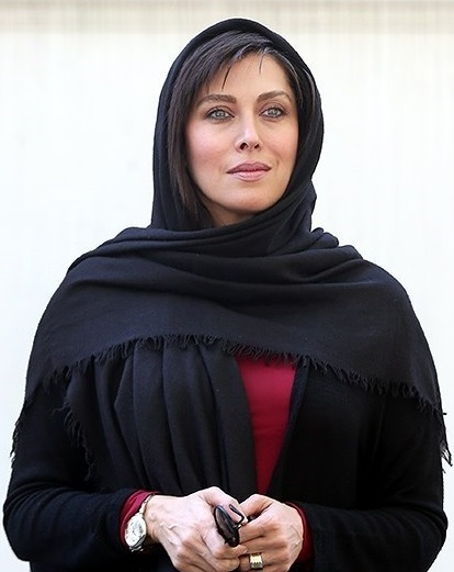 Mahtab Keramati, Take off movie opening ceremony (1396012814563030010558244)